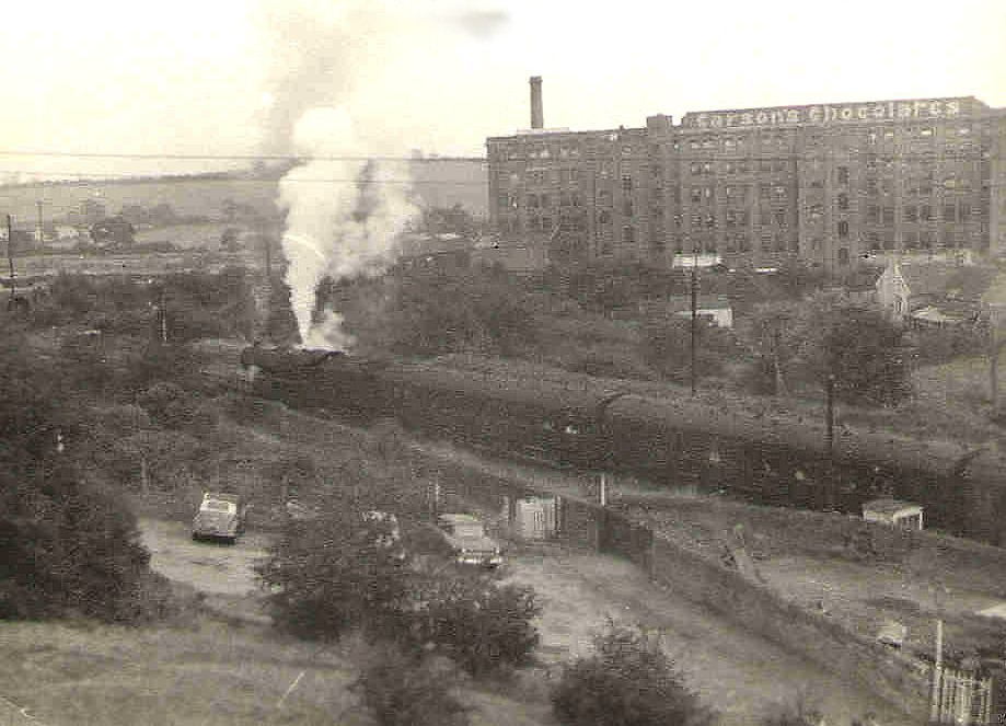 Mangotsfield Station from Rodway Hill (1958).